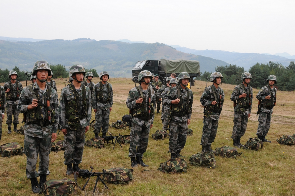 Sino-Romanian army mountain troops joint training "Friendship Action 2009".